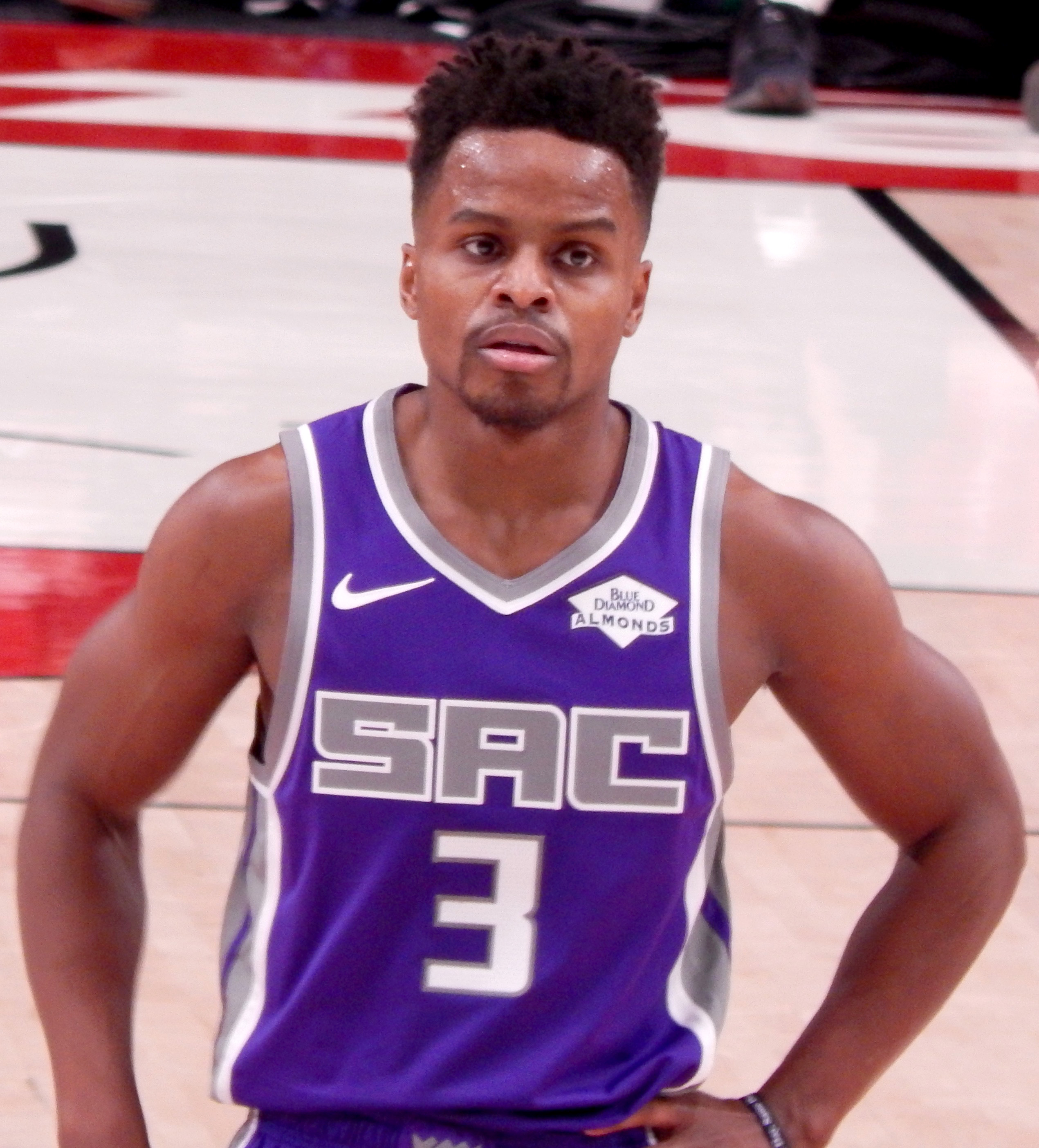 Yogi Ferrell #3 of the Sacramento Kings shoots a free throw during the game against the Portland Trail Blazers on December 4, 2019 at the Moda Center Arena in Portland, Oregon.